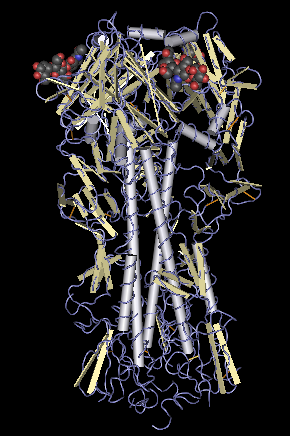 Hemagglutinin. A simplified model of influenza virus surface glycoprotein hemagglutinin. This model was constructed using 3D molecular graphics software. For simplicity, protein sidechains not shown. Protein backbone shown in blue. Heterogens are represented by spacefill. All sequence data necessary for construction are freely available in open access fashion at the National Center for Biotechnology Information, an agency of the U.S. National Institutes of Health.